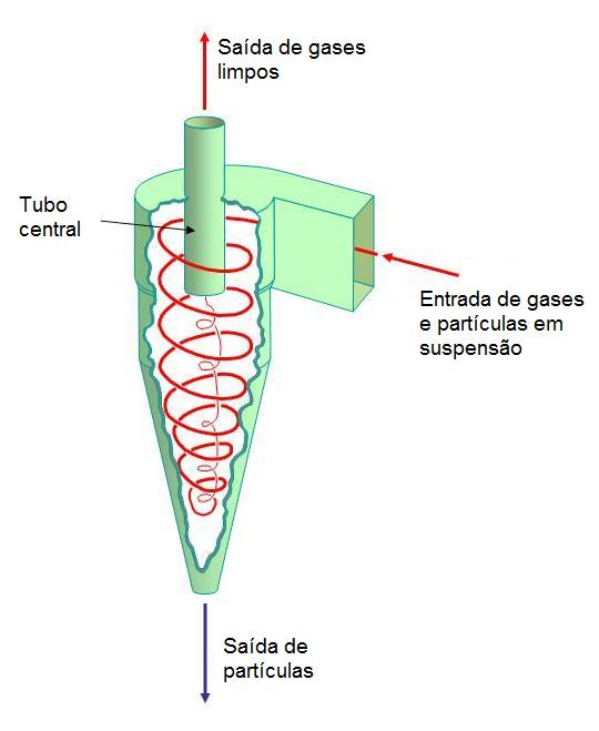 Shows how the Cyclone Separator works (in portuguese).